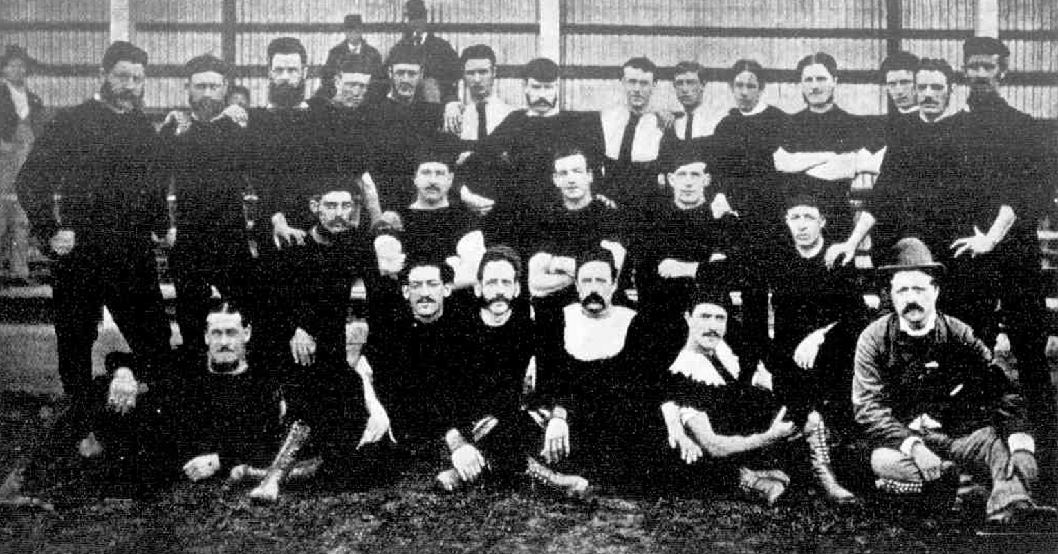 This is a team photo of the 1878 Norwood Football Club premiership team. Top Row: T. Letchford, T. Blinman, H. Thurgaland. A. E. Waldron, L. Kauffmann, F. Terrell, J. It. Osborne (Capt.). T. Green, A. Terrell, F. Letchford, J. Woods, E. Woods, F. Chapman, A. S. Young. Second Row: J. Coward, L. Subard, G. Giffen, W. Dedman, H. C. Burnet. Bottom Row: J. Low, J. Pollock, A. McMichael, Joe Traynor, W. Bracken, A. J. Diamond (Secretary). Other information The photo was 136 years old at time of upload (2014).